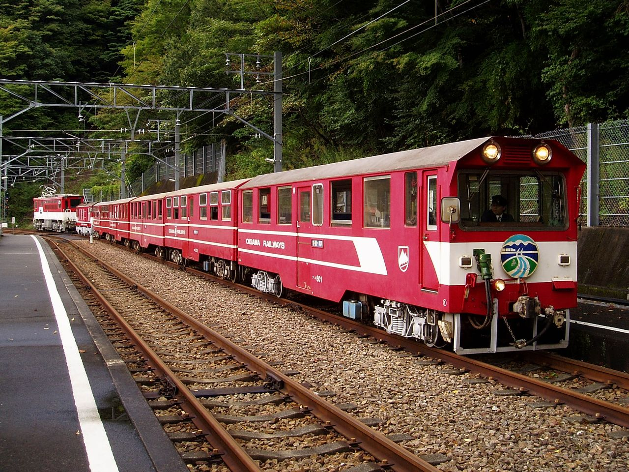 Oigawa Railway Passenger Train. プッシュプル方式（ペンデルツーク式）のため制御車が先頭 at Nagashima-Dam Sta. 2007.10.09 Photo by Cassiopeia_sweet.